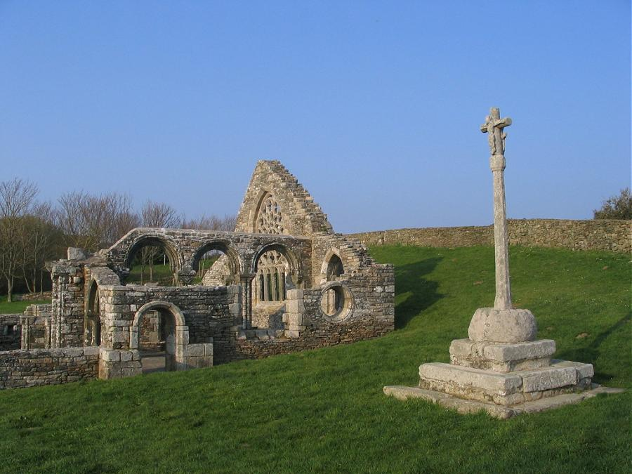 Chapelle de Languidou : placître